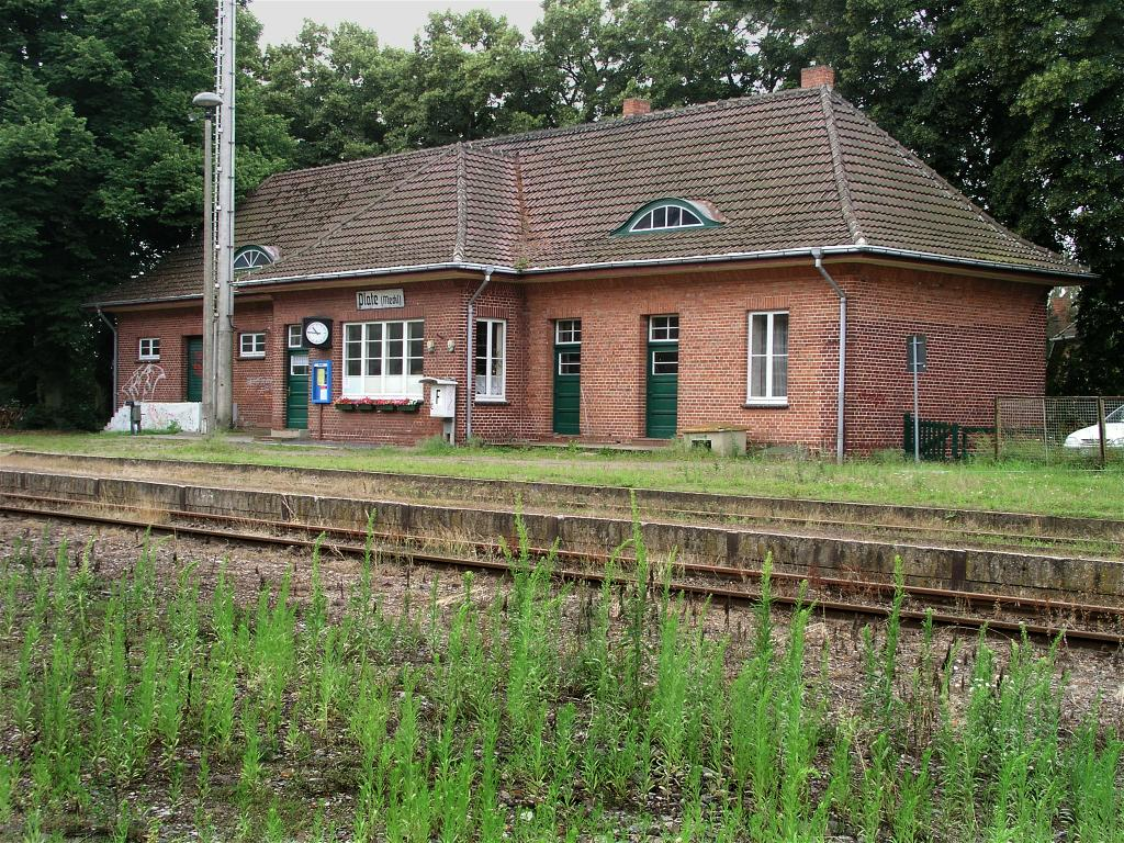 Plate, Mecklenburg, Germany: railway-station, photo 2004